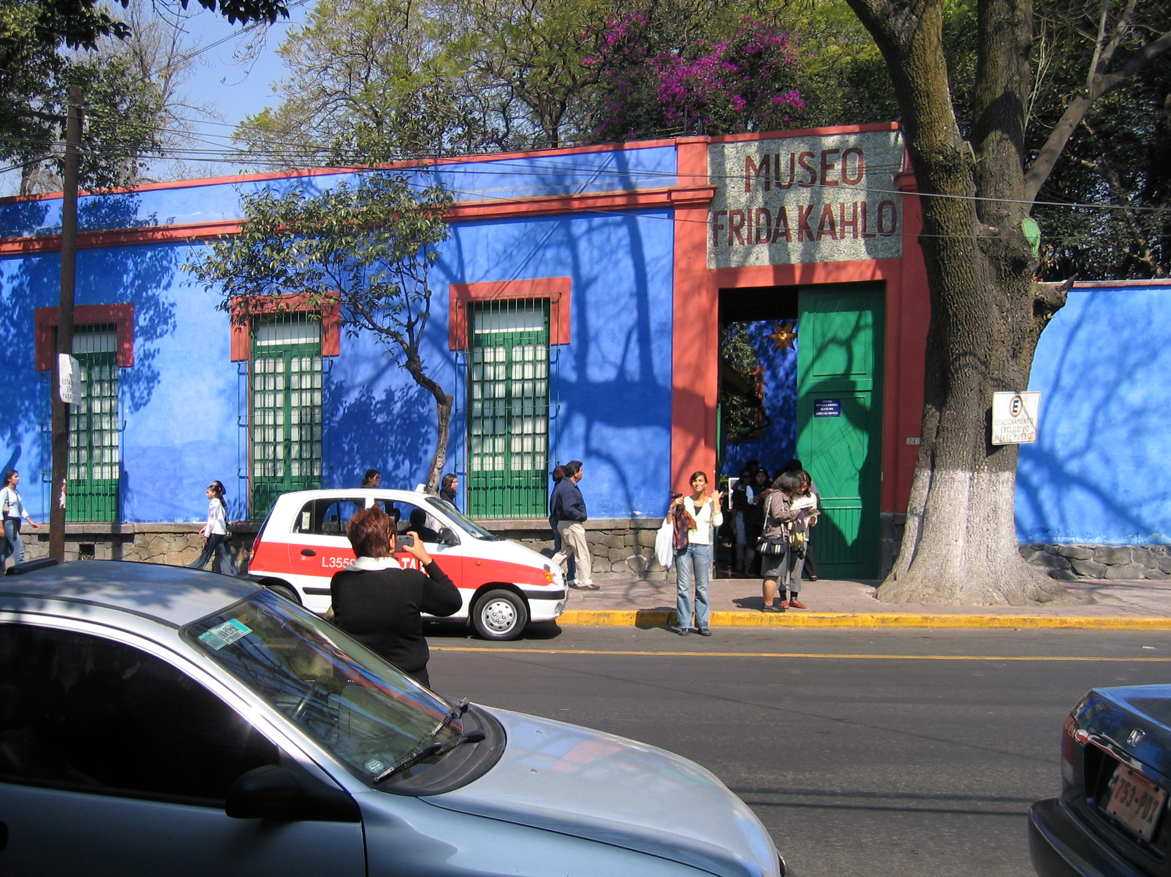 Picture from Frida Kahlos house - The Blue House.